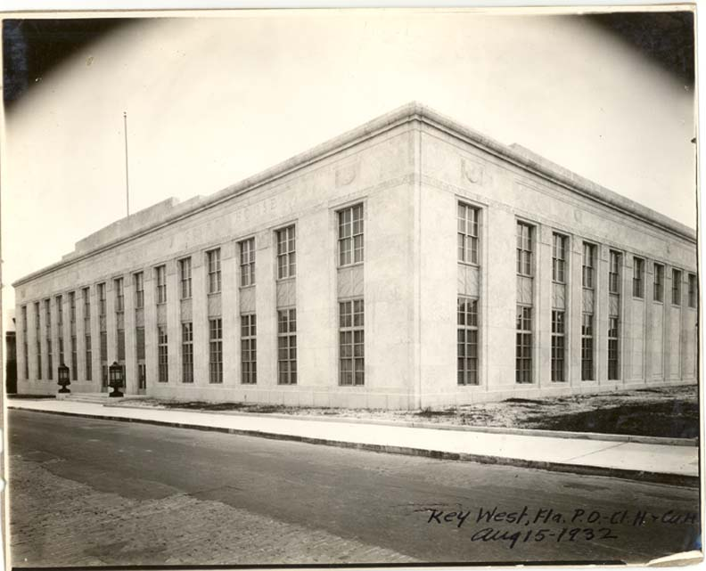 Key West, Florida U.S. Post Office, Custom House, and Courthouse (1932) Completed in 1933. Supervising Architect: James A. Wetmore Still in use by the United States District Court for the Southern District of Florida.